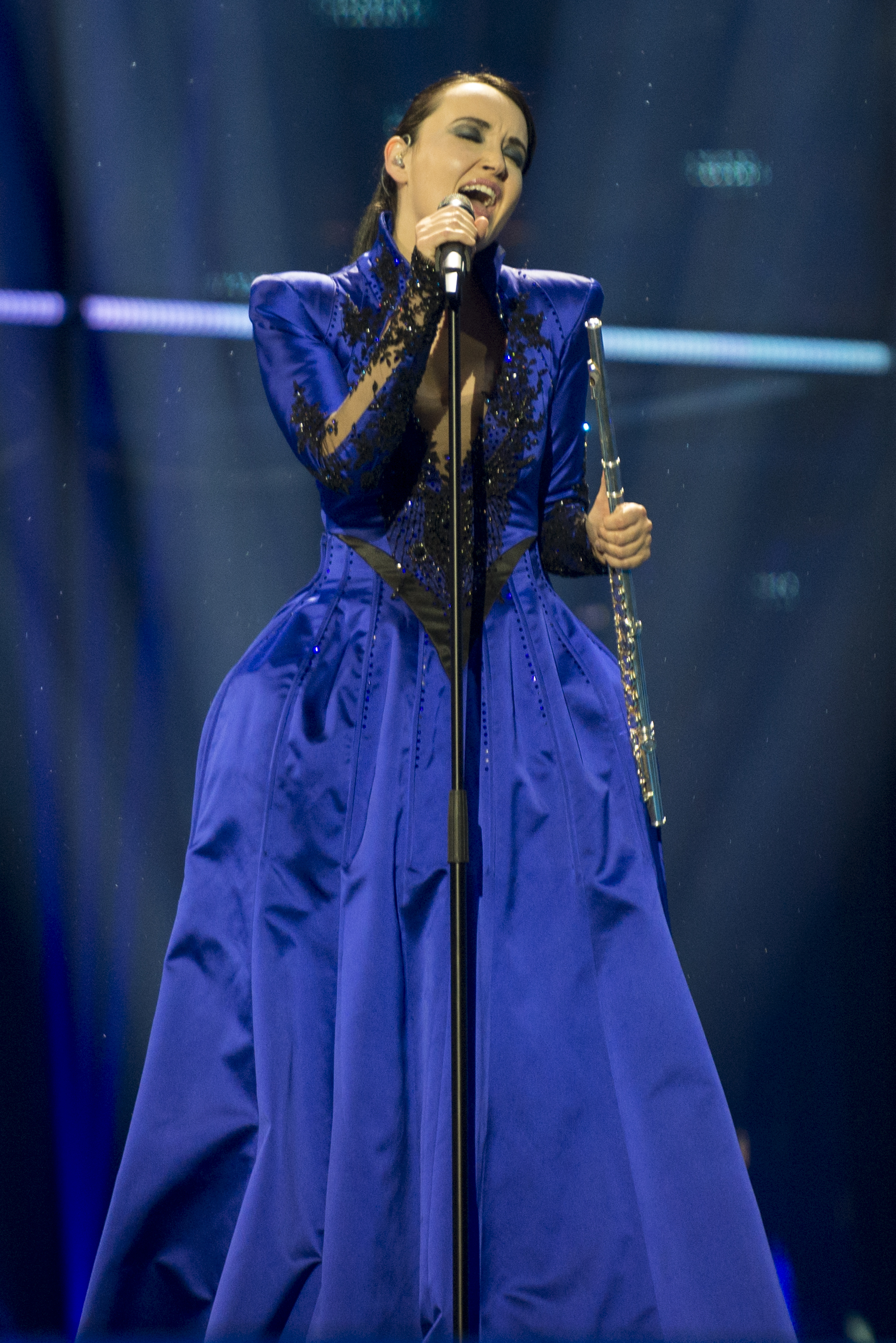 Tinkara Kovač representing Slovenia with the song "Spet (Round and Round)" during the first dress rehearsal of the second semi final of the Eurovision Song Contest 2014 Copenhagen. (Help translate this text)